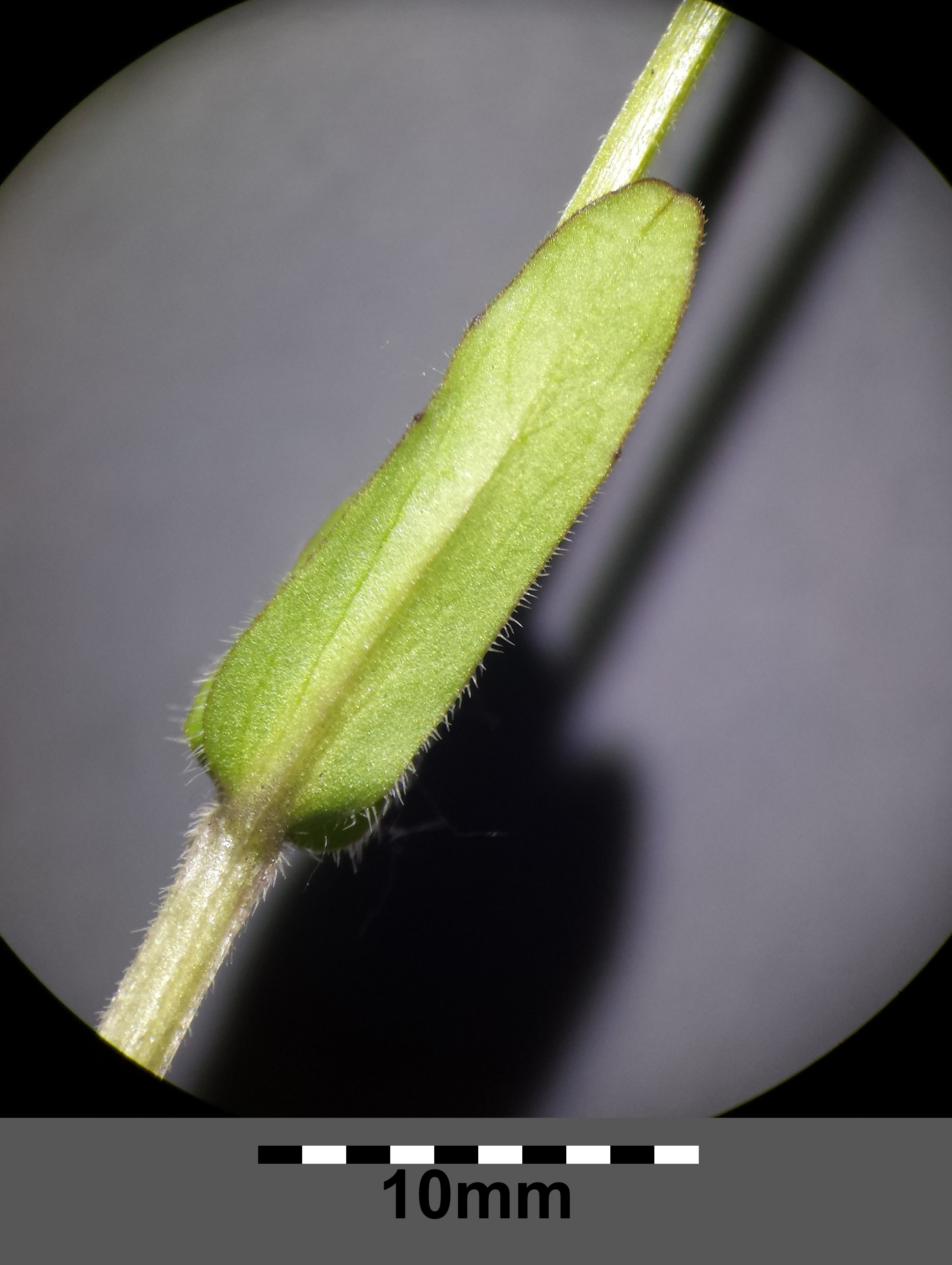 Stem with leaf Taxonym: Valerianella carinata ss Fischer et al. EfÖLS 2008 ISBN 978-3-85474-187-9 Location: Floridsdorf rail station, Vienna-Floridsdorf - ca. 160 m a.s.l. Habitat: ballast